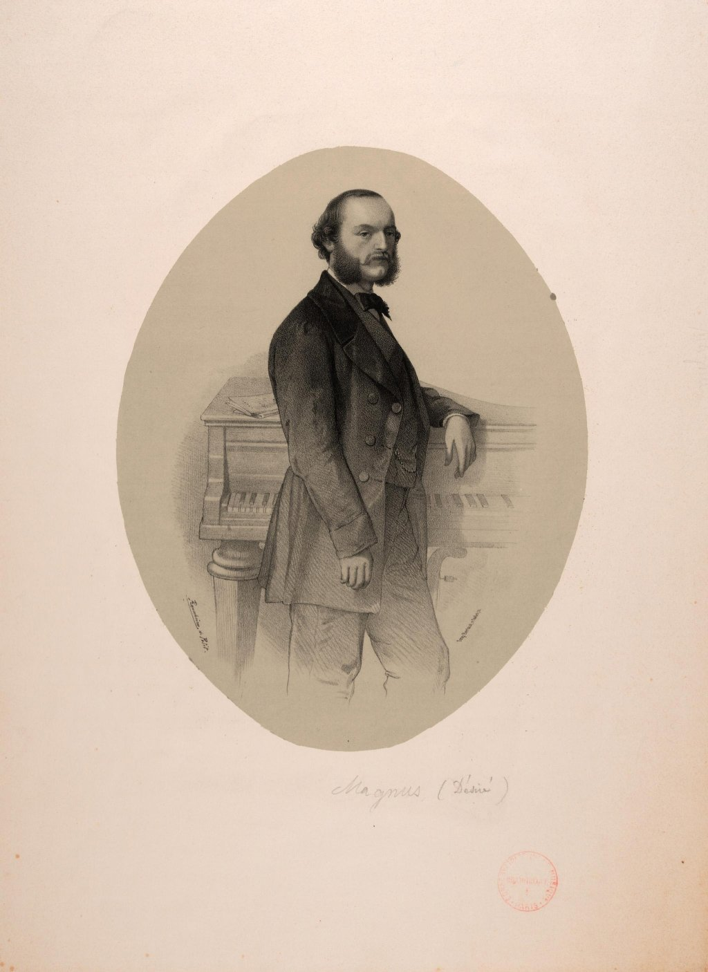 Désiré Magnus (1828–1884). Lithograph by Hermann Raunheim (1817–1895).